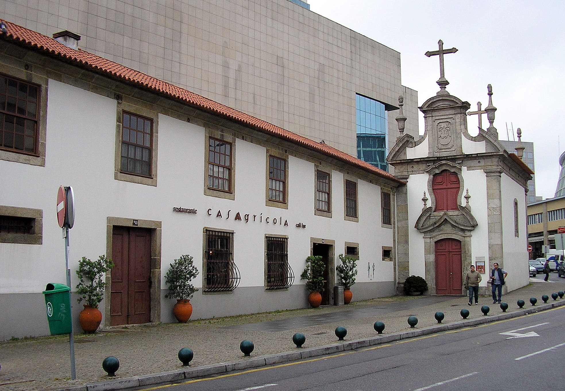 "Bom Sucesso" house and chapel in Porto city, Portugal.